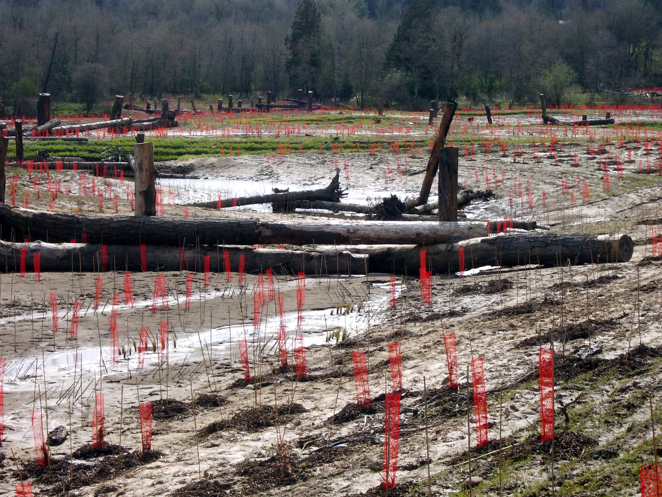 This recent rehabilitation of a portion of Johnson Creek restores bioswale and flood control functions of the land which had long been converted to pasture for cow grazing. The horizontal logs can float, but are anchored by the posts. Just-planted trees (in seedling protective tubes) will eventually stabilize the soil. The fallen trees with roots jutting into the stream are intended to enhance wildlife habitat. The meandering of the stream is enhanced here by a factor of about three times, perhaps to its original course. A kiosk will probably appear here alongside the Springwater Corridor roughly where SE 164th Ave virtually crosses. Kelley Creek merges with Johnson Creek in the background (barely visible).